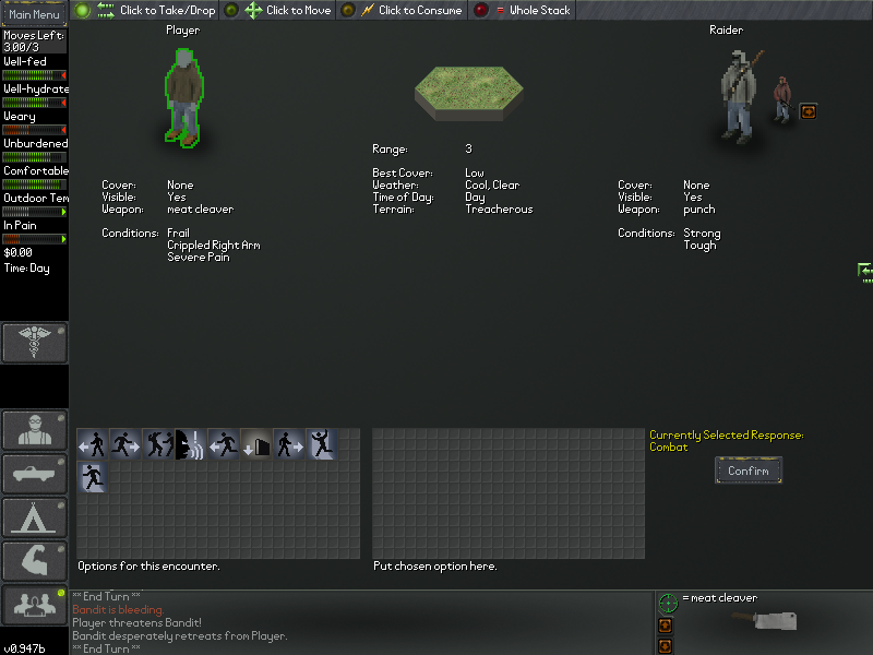 A screenshot from the video game NEO Scavenger.